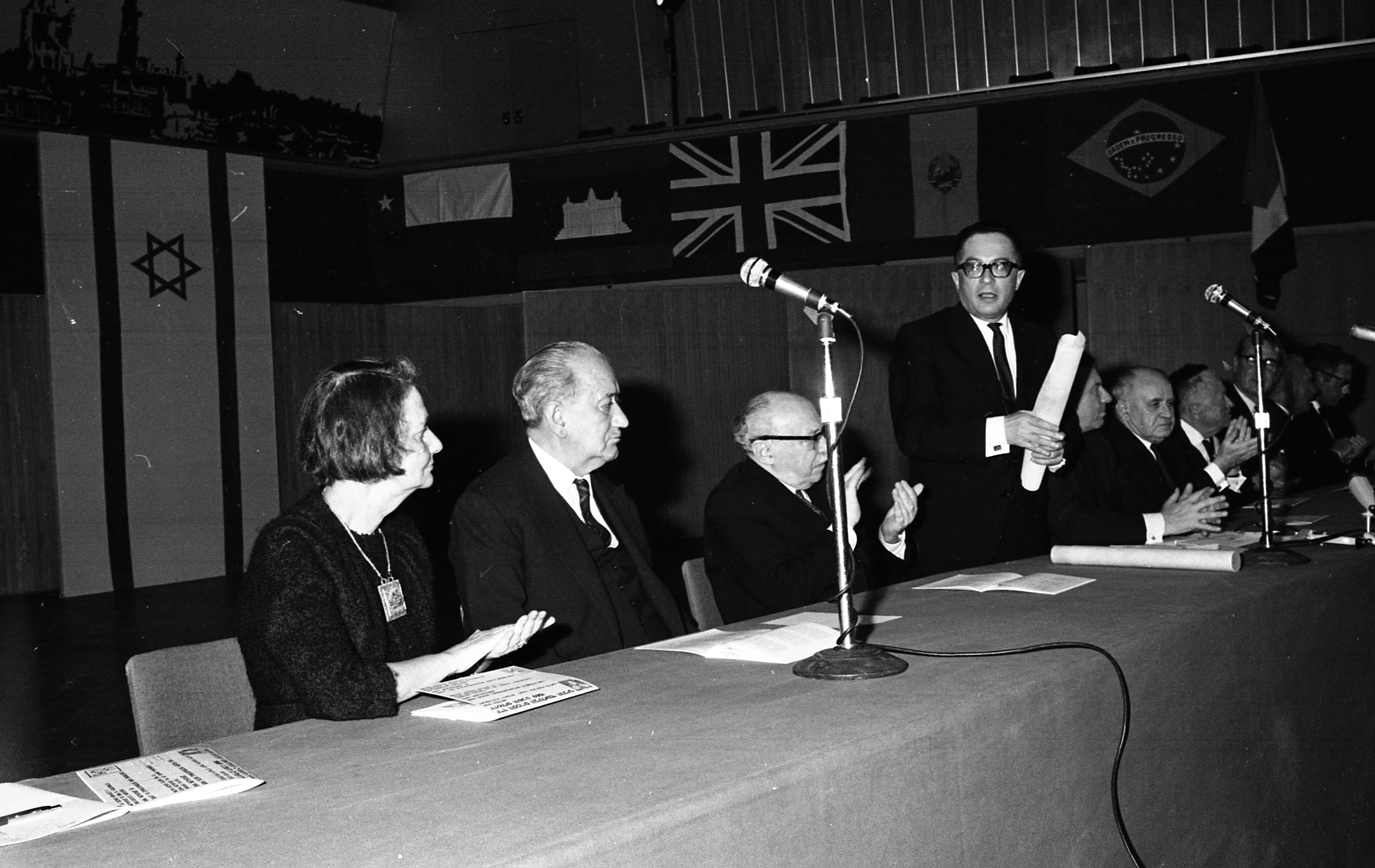 Jerusalem International Book Fair, 1969.